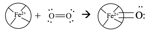 Active site of tetrapyrrol ring binding oxygen